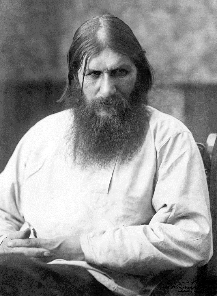 Photo of Grigori Rasputin